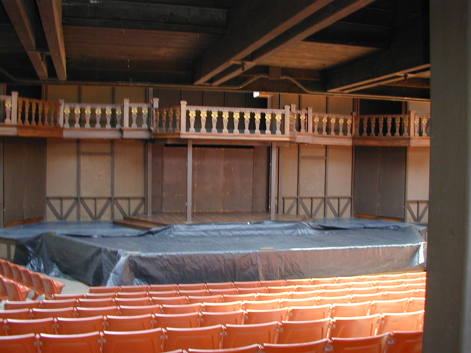 Stage of the Adams Memorial Theater, Cedar City, Utah